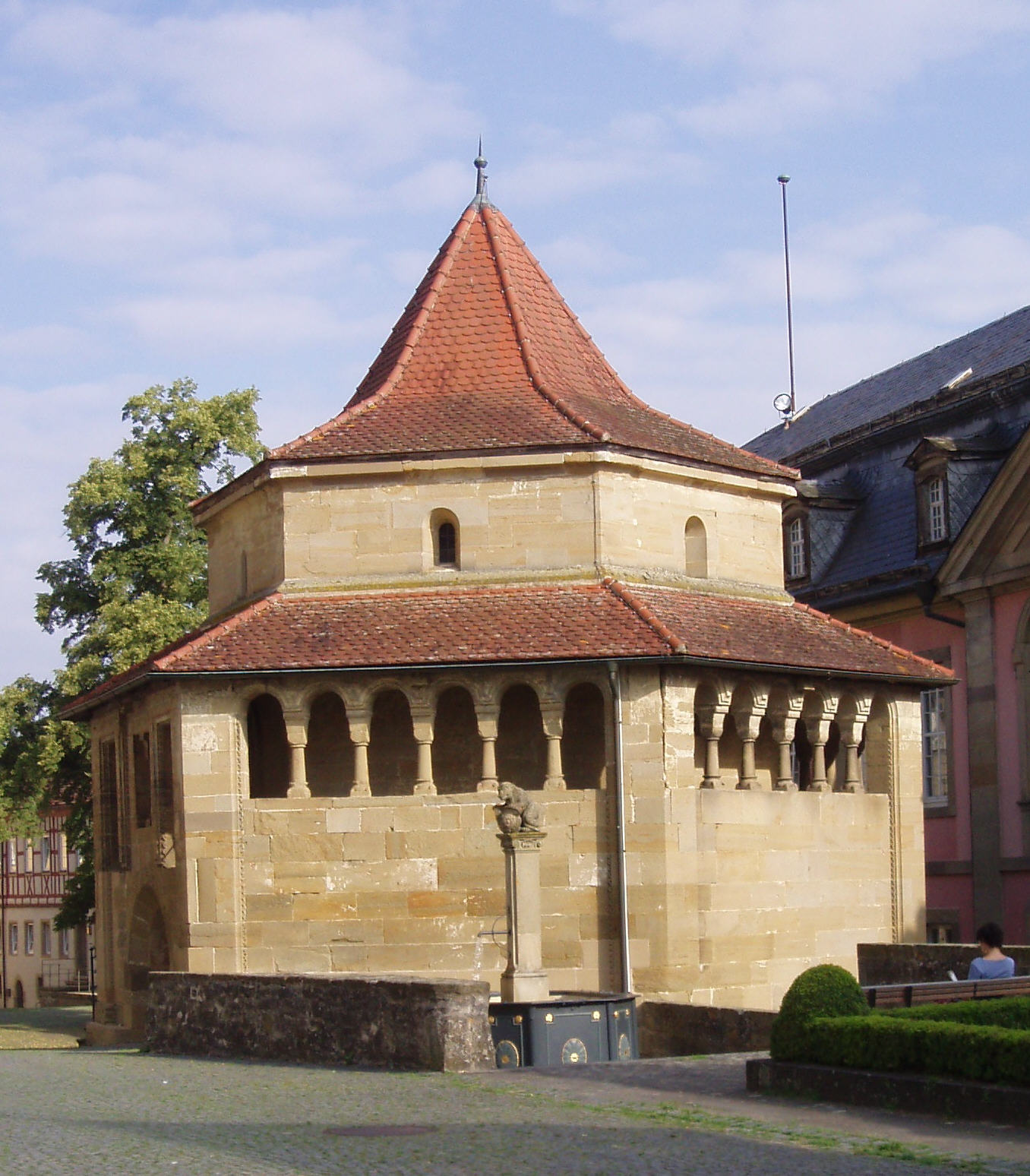 Comburg